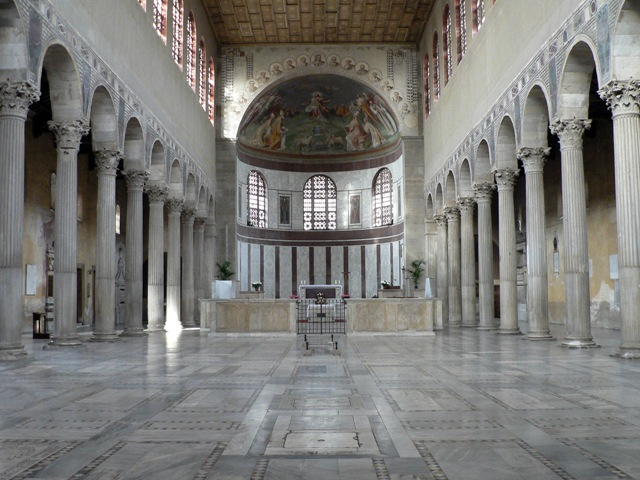 Inside the basilica of Santa Sabina (Rome)